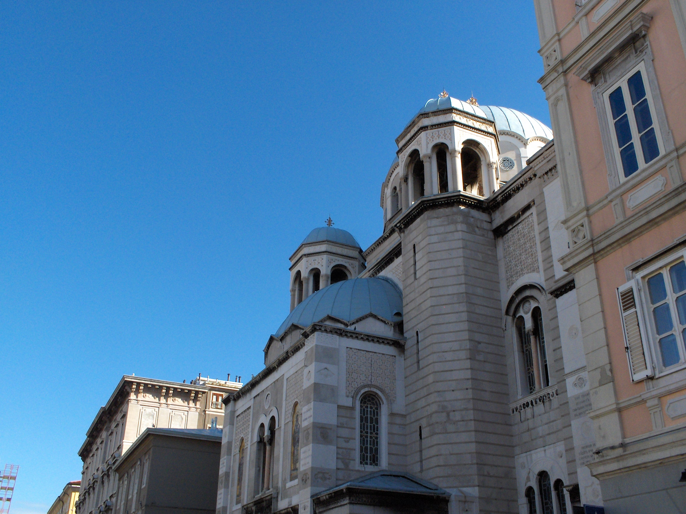 Serbian-orthodox church of San Spiridione, Trieste, Italy.